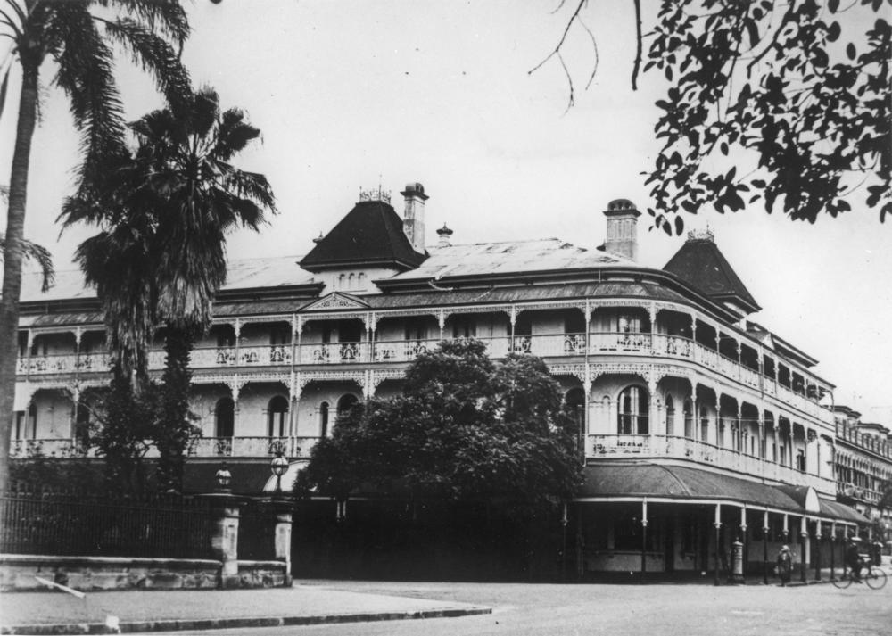 Bellevue Hotel in Brisbane, 1933. The Bellevue had some major renovations during the 1970s. In 1973 the trees were removed in front of the hotel and the balconies removed in 1974.Situated on the corner of George and Alice Streets, Brisbane. The hotel was built in 1885-86 and designed by the architect F.F. Holmes. The building is a three storey construction with verandahs on two levels and featured cast iron ballustrading. (Information taken from W. Job, The building of Brisbane 1828-1940, St Lucia, Qld : University of Queensland 2002).